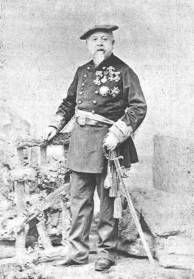 Regino Mergeliza de Vera